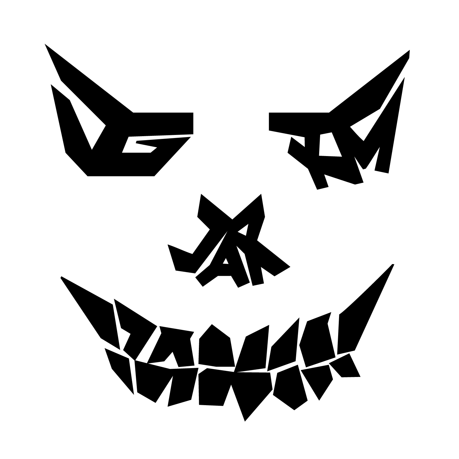 I Am Jax Panik